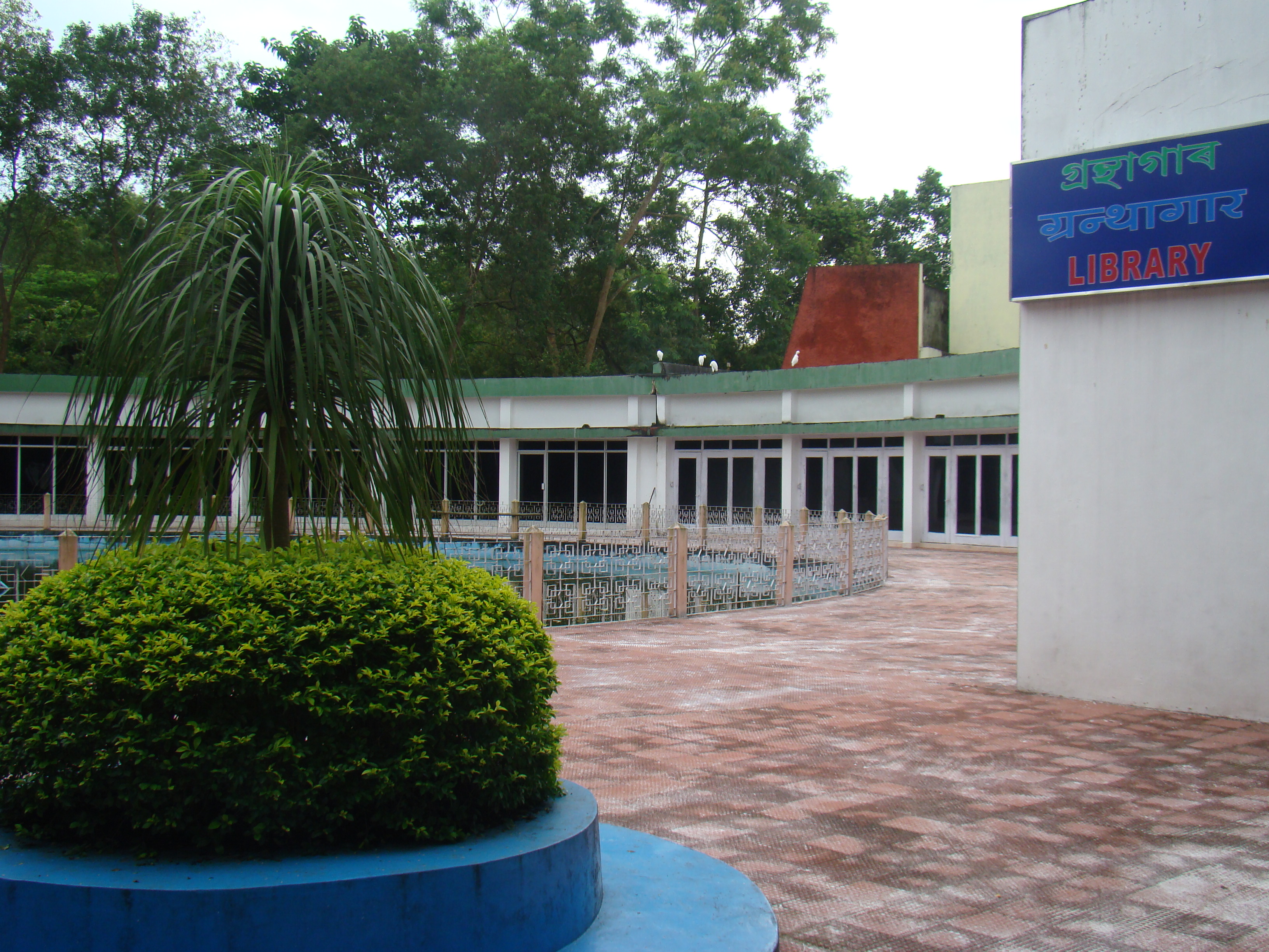 NEIST Library, Jorhat